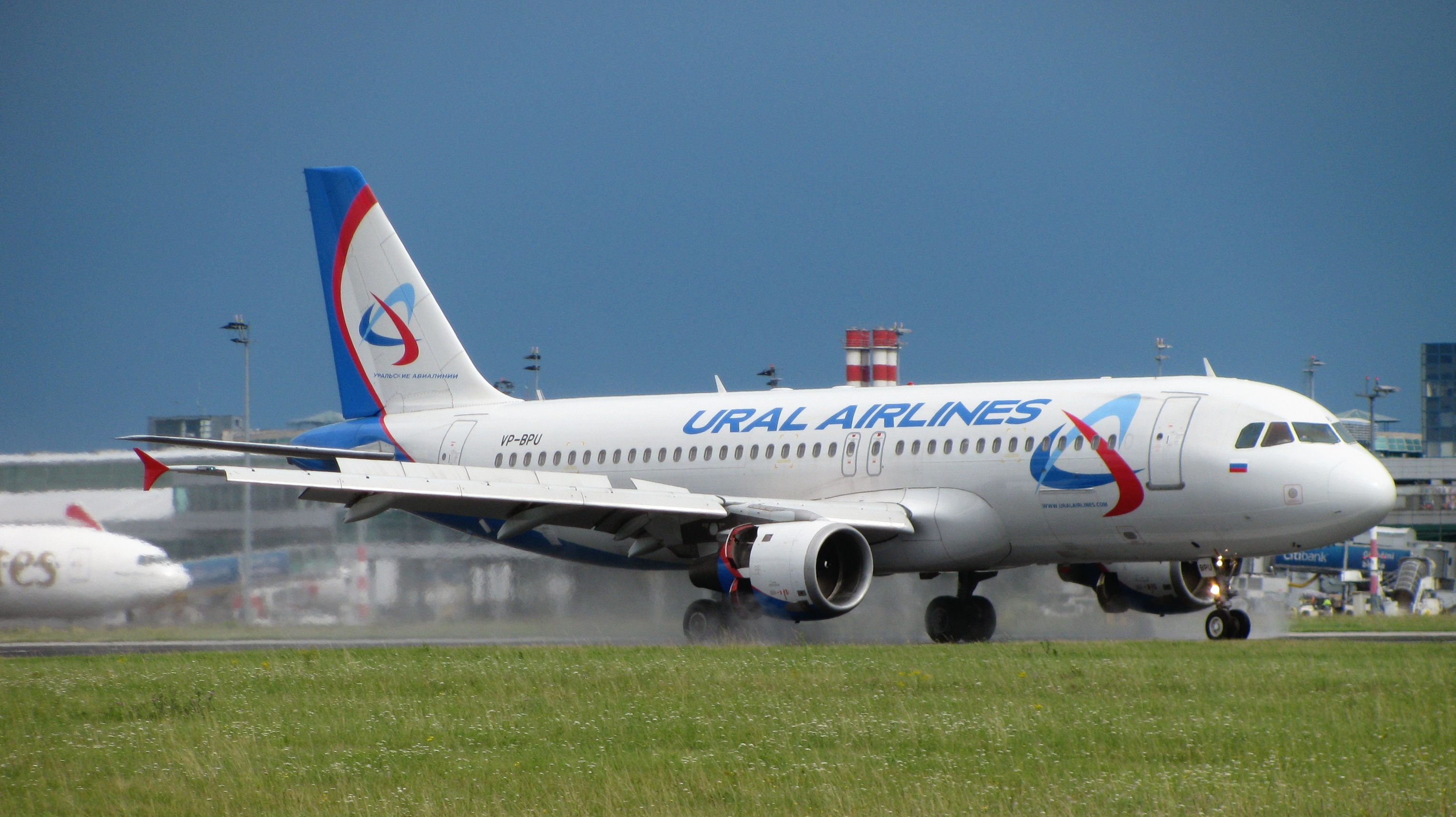 Ural Airlines Airbus A320-200 VP-BPU landing at Prague